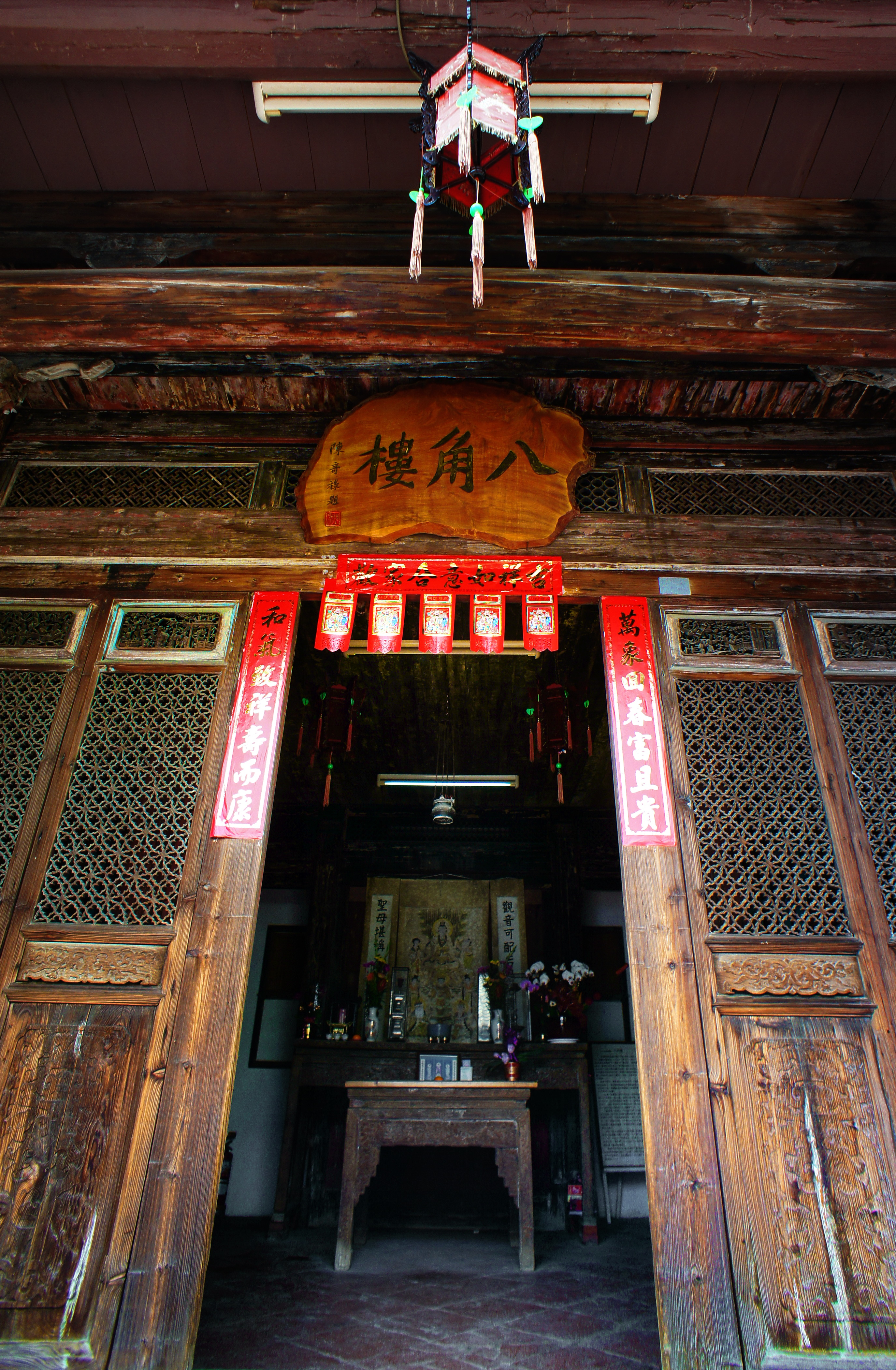 Yanshui Octagonal Building, Tainan City, Taiwan.